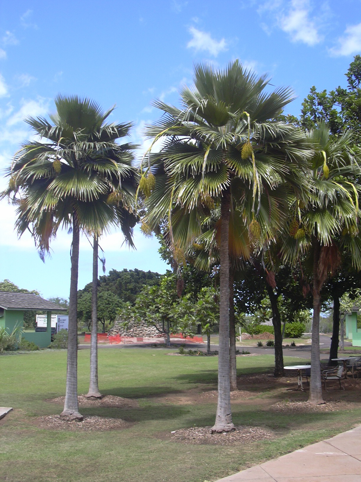 Pritchardia thurstonii (grove). Location: Maui, Maui Nui Botanical Garden